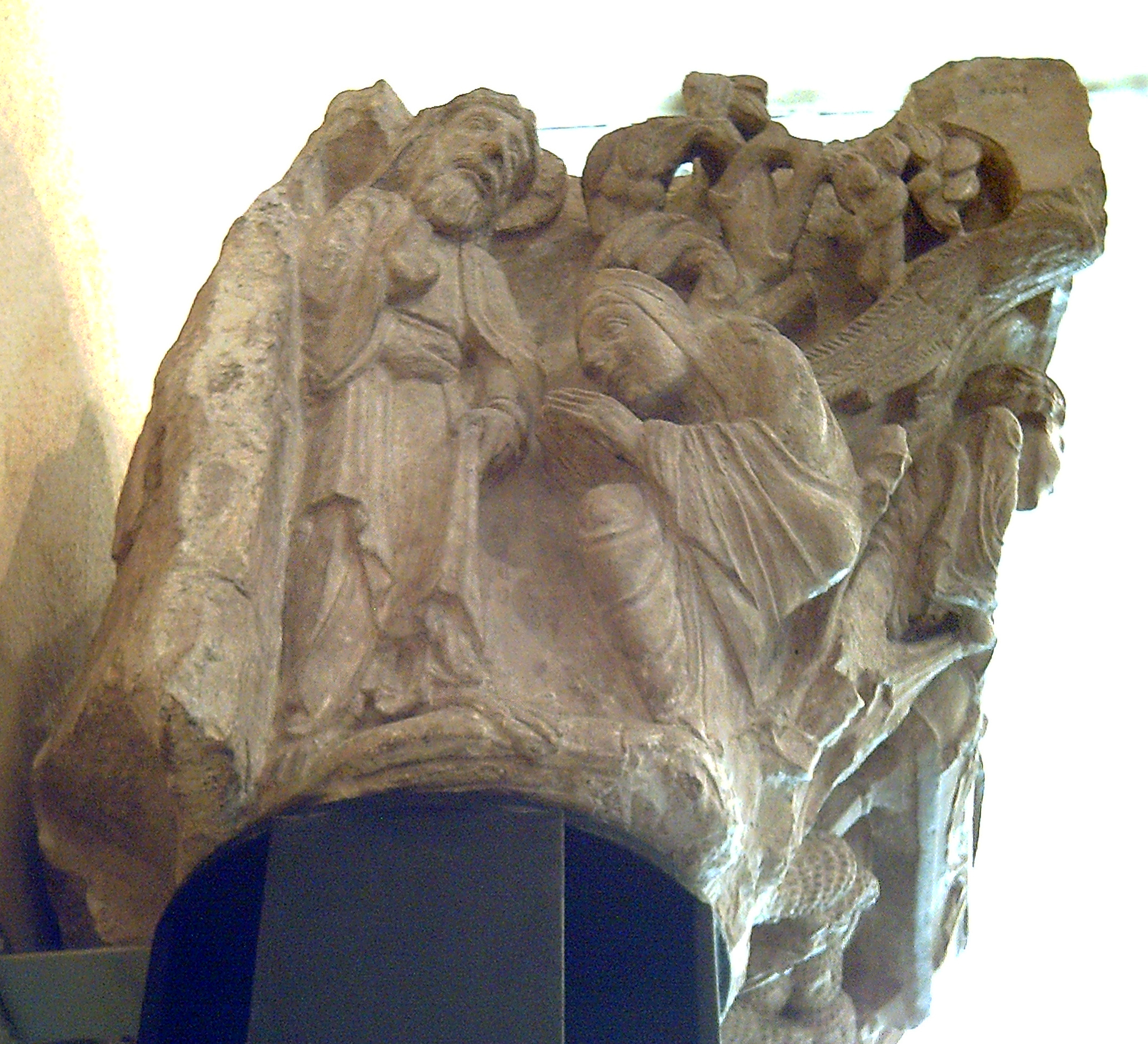 Left side of a Romanesque capital.